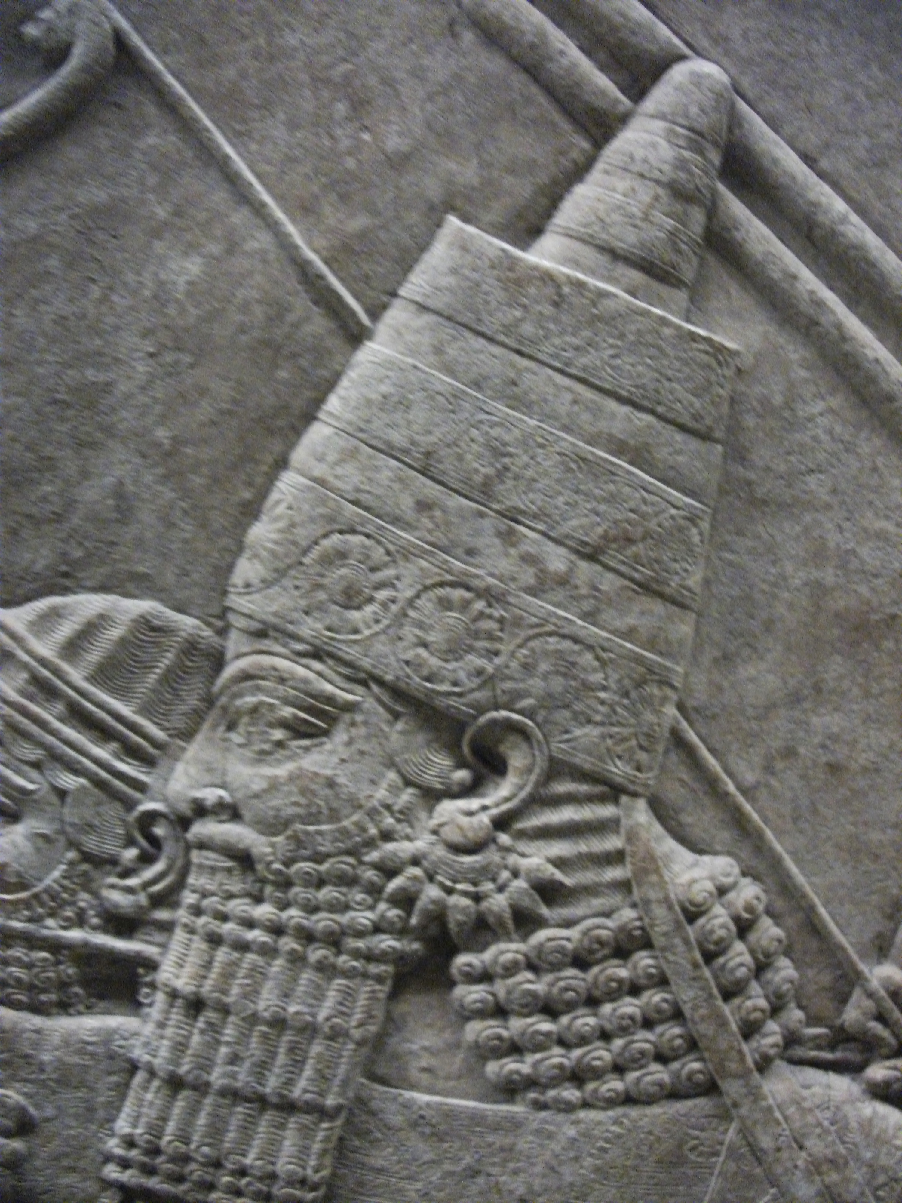 The Royal lion hunt reliefs from the Assyrian palace at Nineveh , about 645-635 BC, British Museum, Room 10